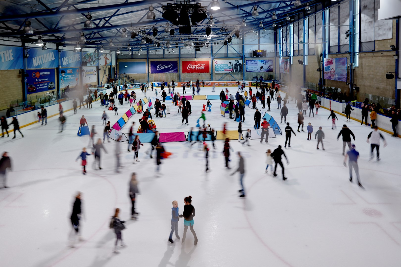 Internal image of the National Ice Centre